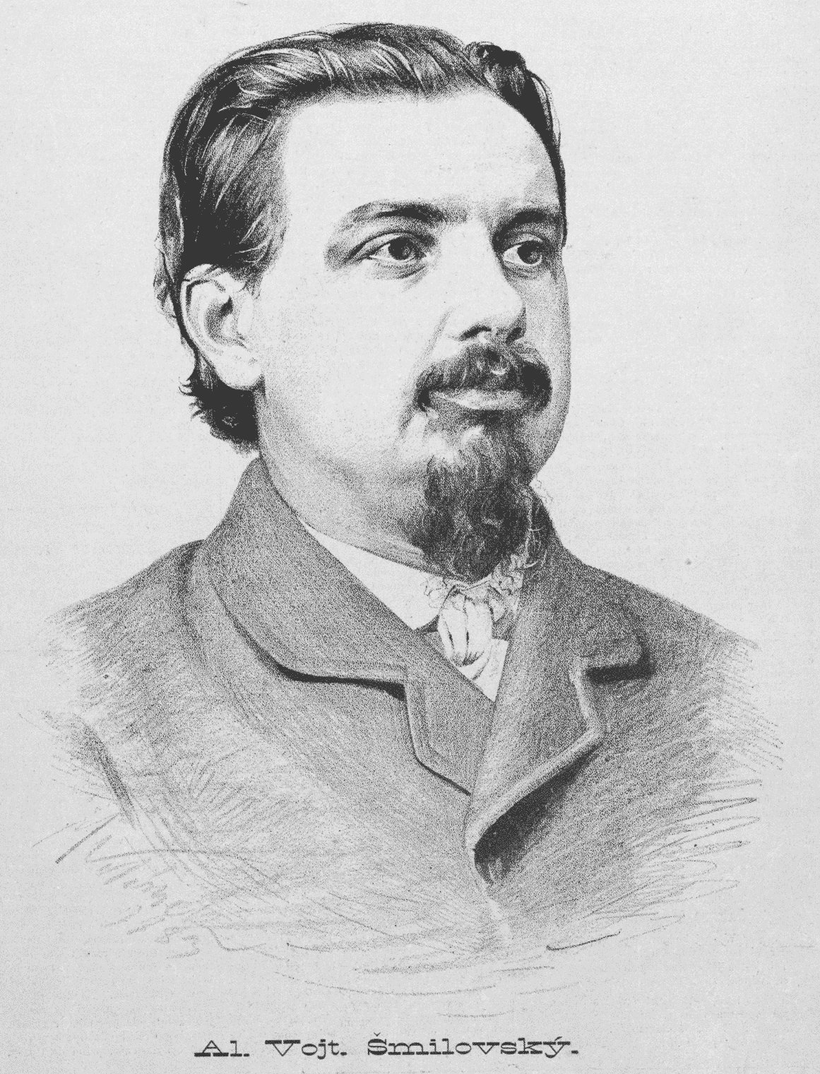 Portrait of Alois Vojtěch Šmilovský, Czech writer of historic novels